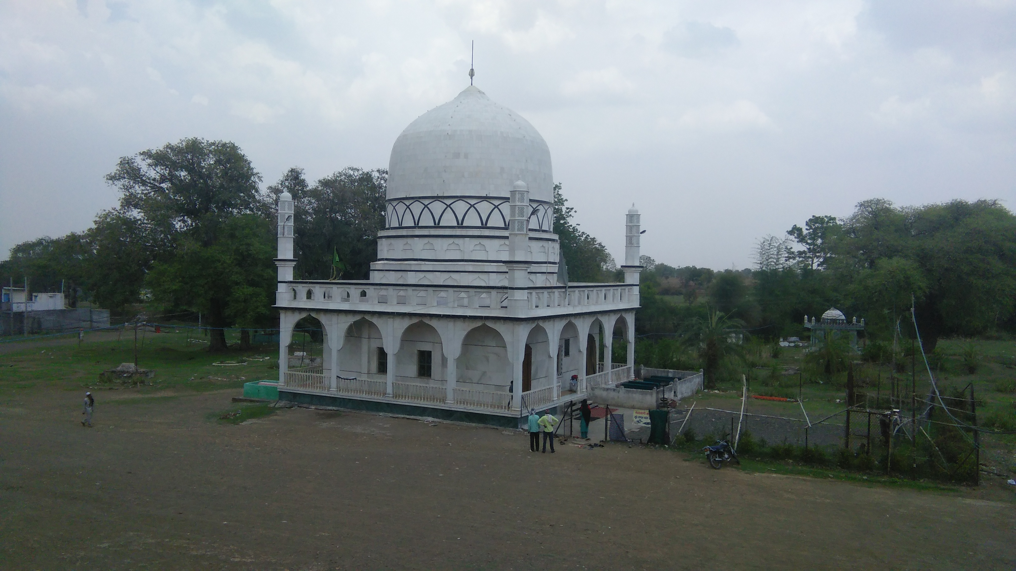 Tomb Dargah Sharif Of Hazrat Haji Sayyed Mohammed Badiuddin Jiyaulhaq Qadri Shuttari R.A.